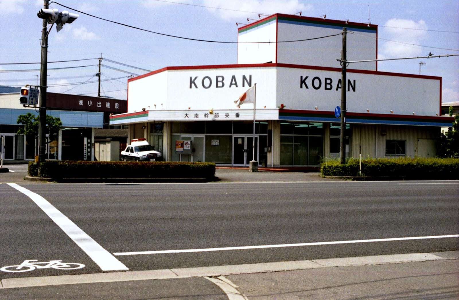 大分県大分市中戸次の大南幹部交番